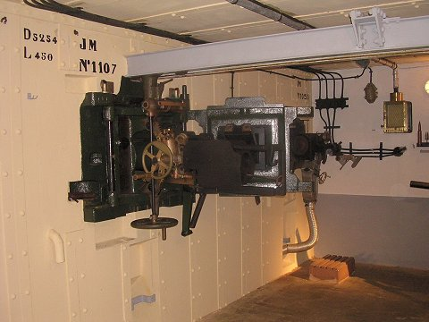 The shooting room at the work of La Ferté